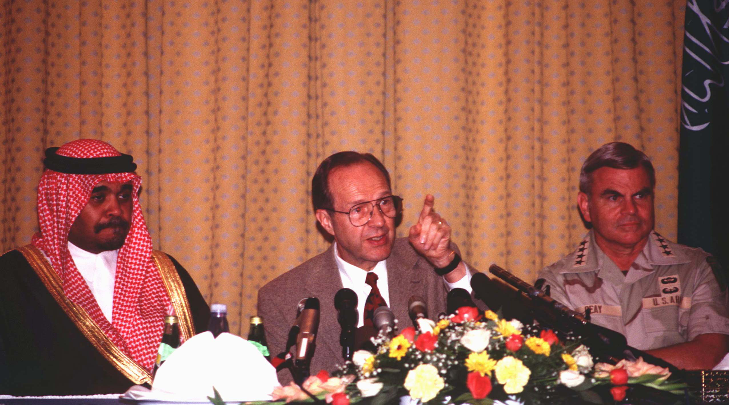 U.S. Secretary of Defense William J. Perry (center) emphasizes a point as he answers questions about the terrorist bombing of Khobar Towers at a press conference in Dhahran, Saudi Arabia, on June 29, 1996. The explosion of a fuel truck set off by terrorists at 2:55 p.m. EDT, Tuesday, June 25, 1996, outside the northern fence of the Khobar Towers complex near King Abdul Aziz Air Base, killed 19 and injured over 260. The facility housed U.S. service members and served as the headquarters for the 4404th Wing (Provisional), Southwest Asia. Flanking Perry are Saudi Arabian Prince Bandar Bin Sultan (left) and Gen. J.H. Binford Peay III, U.S. Army, Commander in Chief, U.S. Central Command.